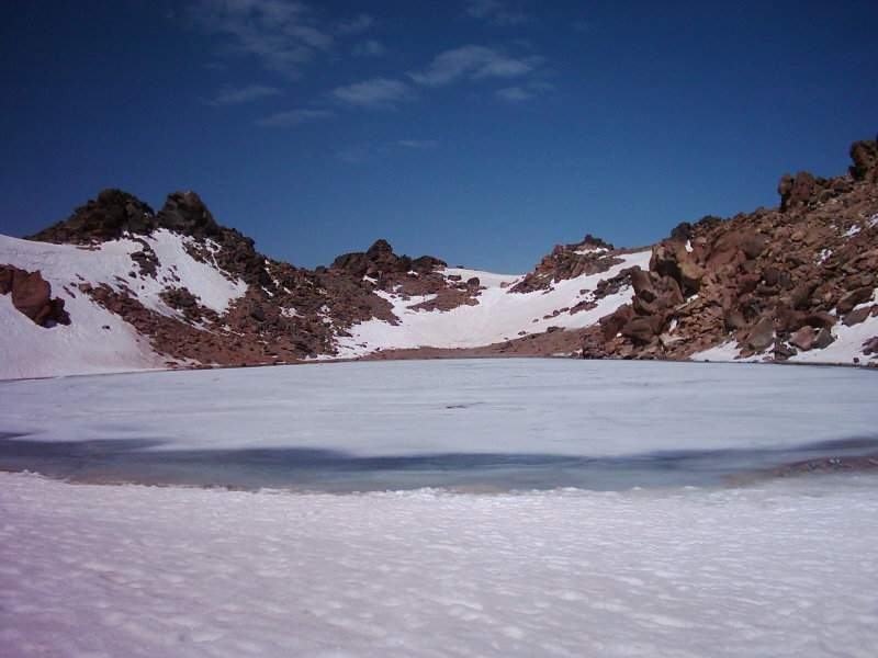 Crater lake of Sabalan Mountain, Summer 2002